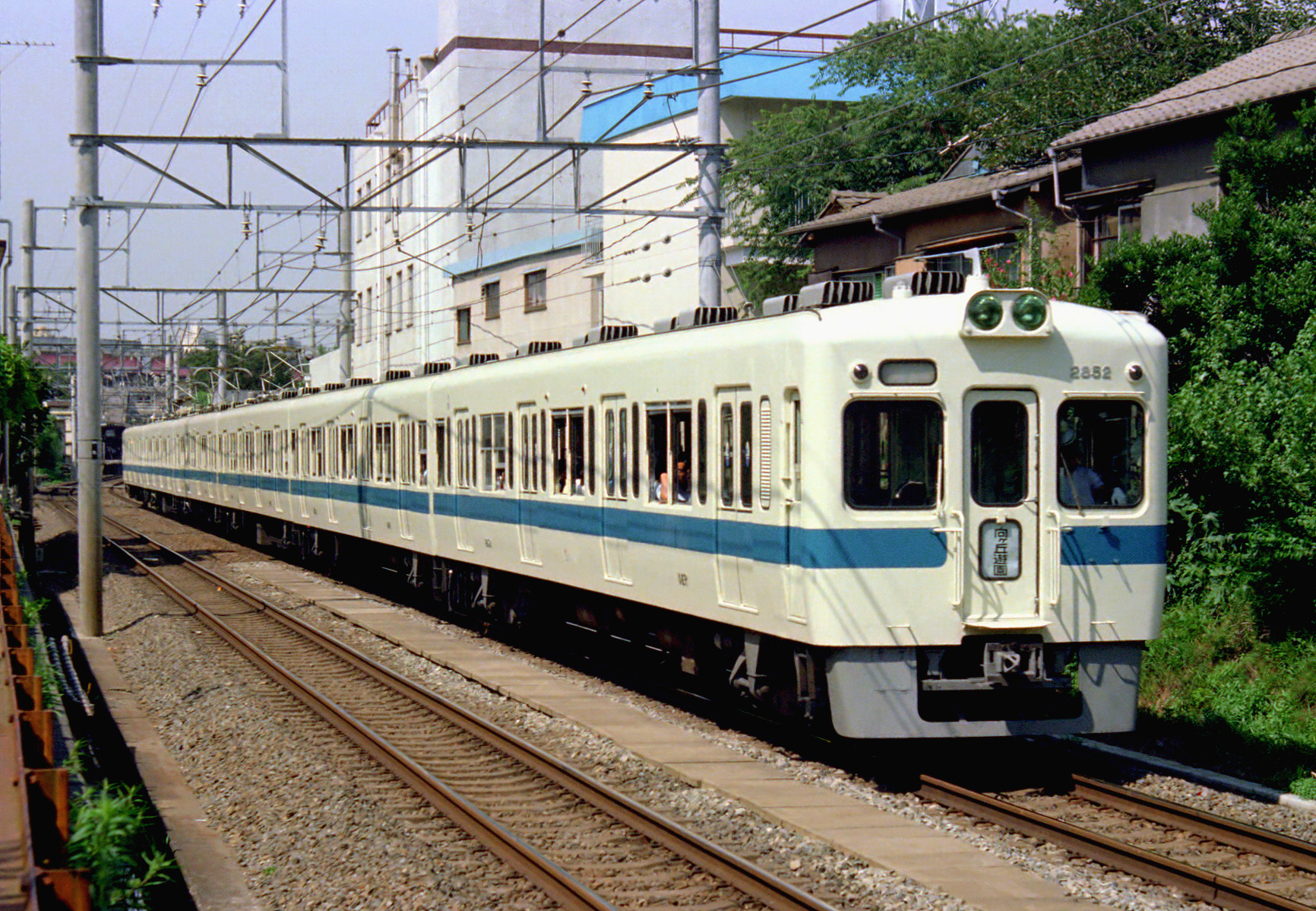 Odakyu Electric Railway 2600 series EMU running between Sangubashi and Yoyogihachiman.